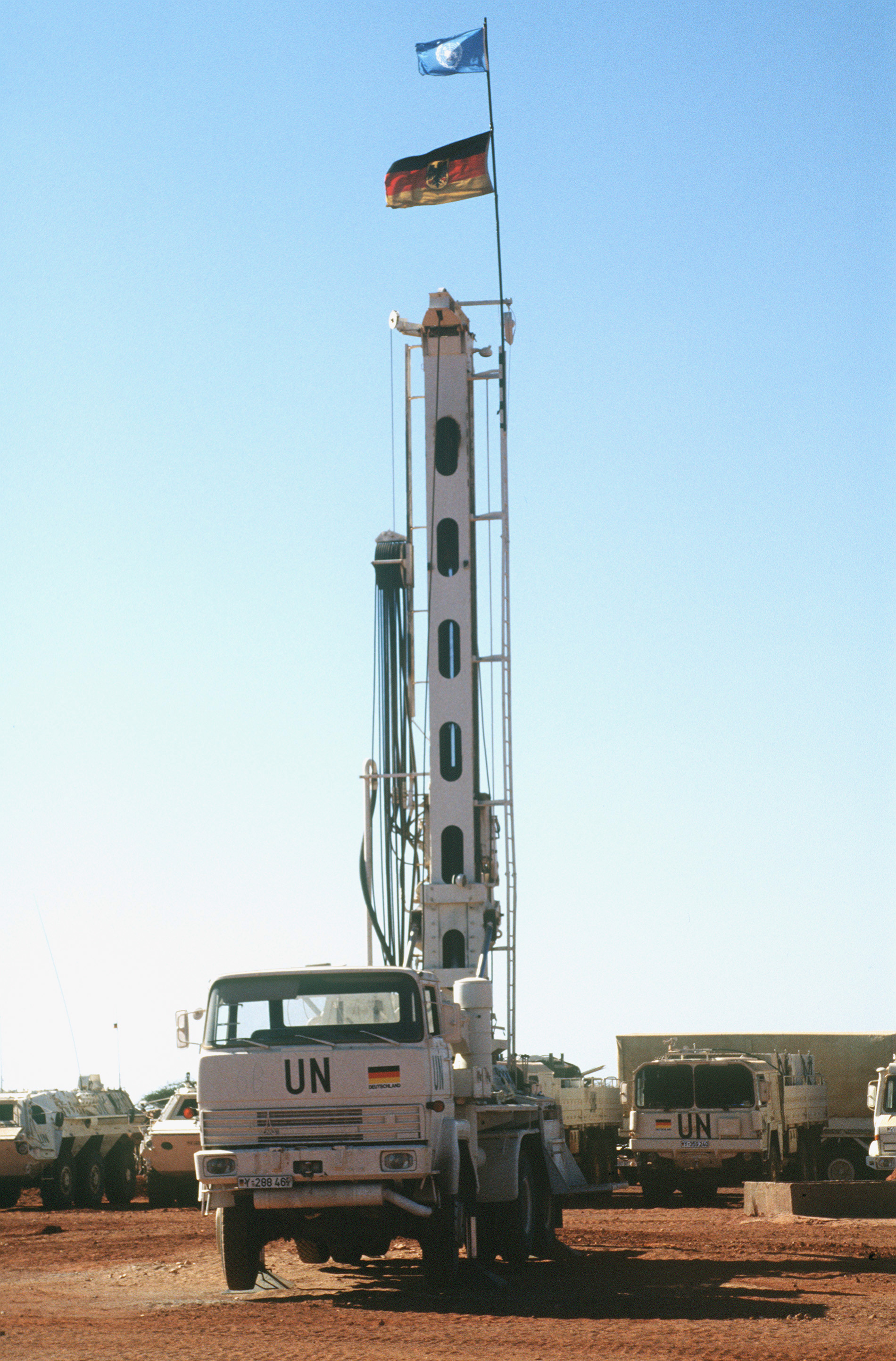 The German vehicle used to drill a new well in the city of Mataban, Somalia.